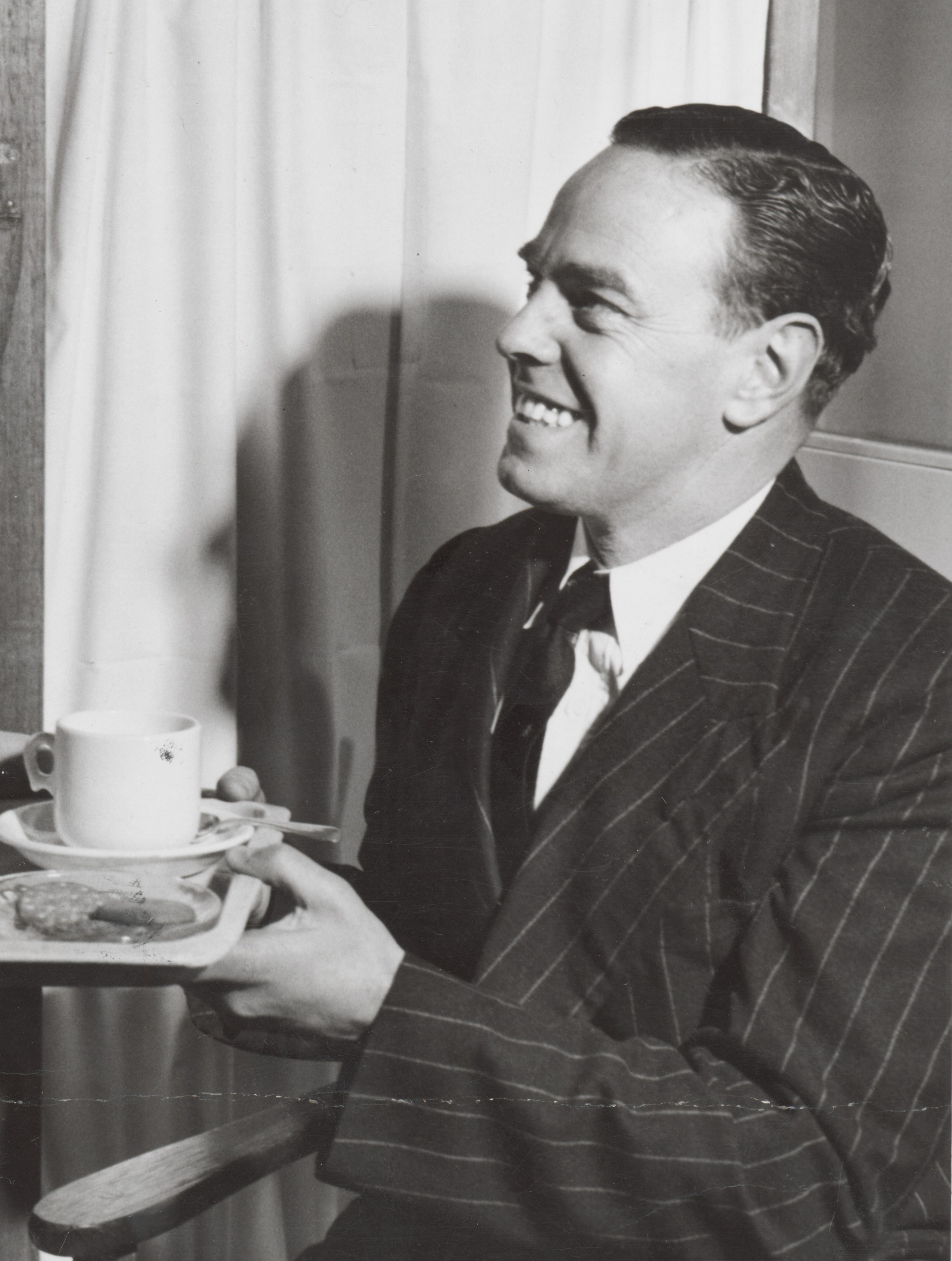 Ian Johnson, sitting, at the Royal Melbourne Red Cross blood bank after giving a pint of his blood, he is being served a cup of coffe and biscuits from nurse Susan Gleeson